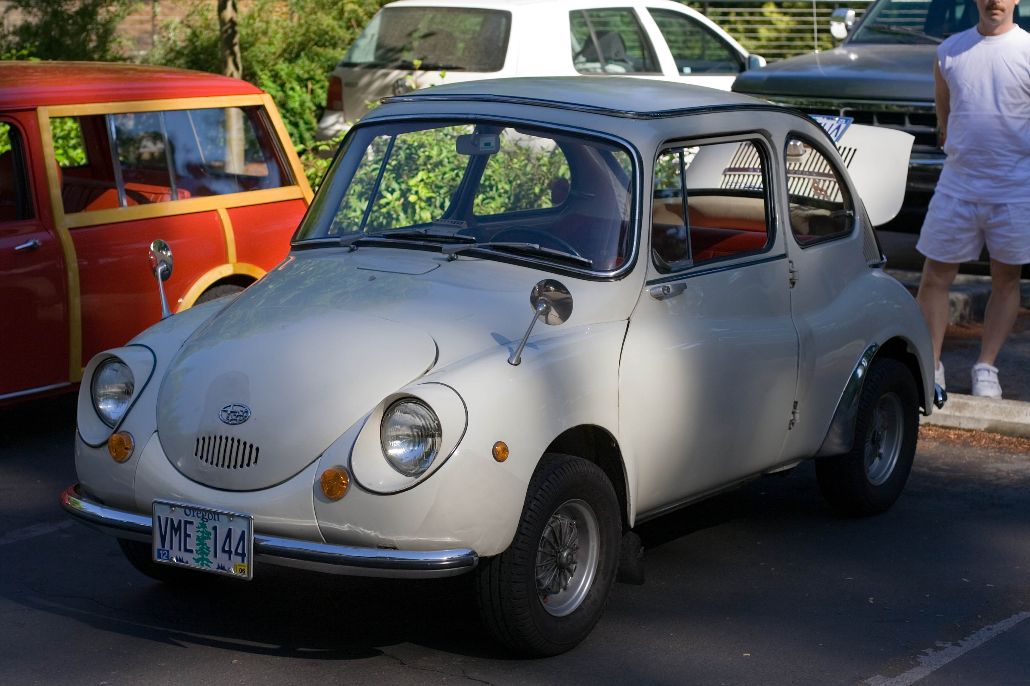 Subaru 360. This was given to Mark as a non-runner by Tadasu almost 10 years ago. Who knew it would go on to inspire the meet that brought everyone together today?